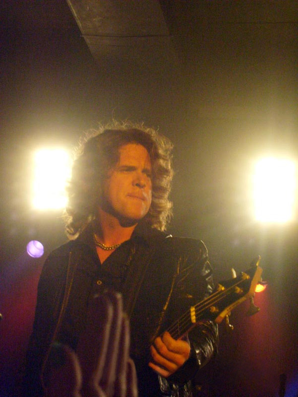 Pat Badger - Extreme - Live in Birmingham 2008